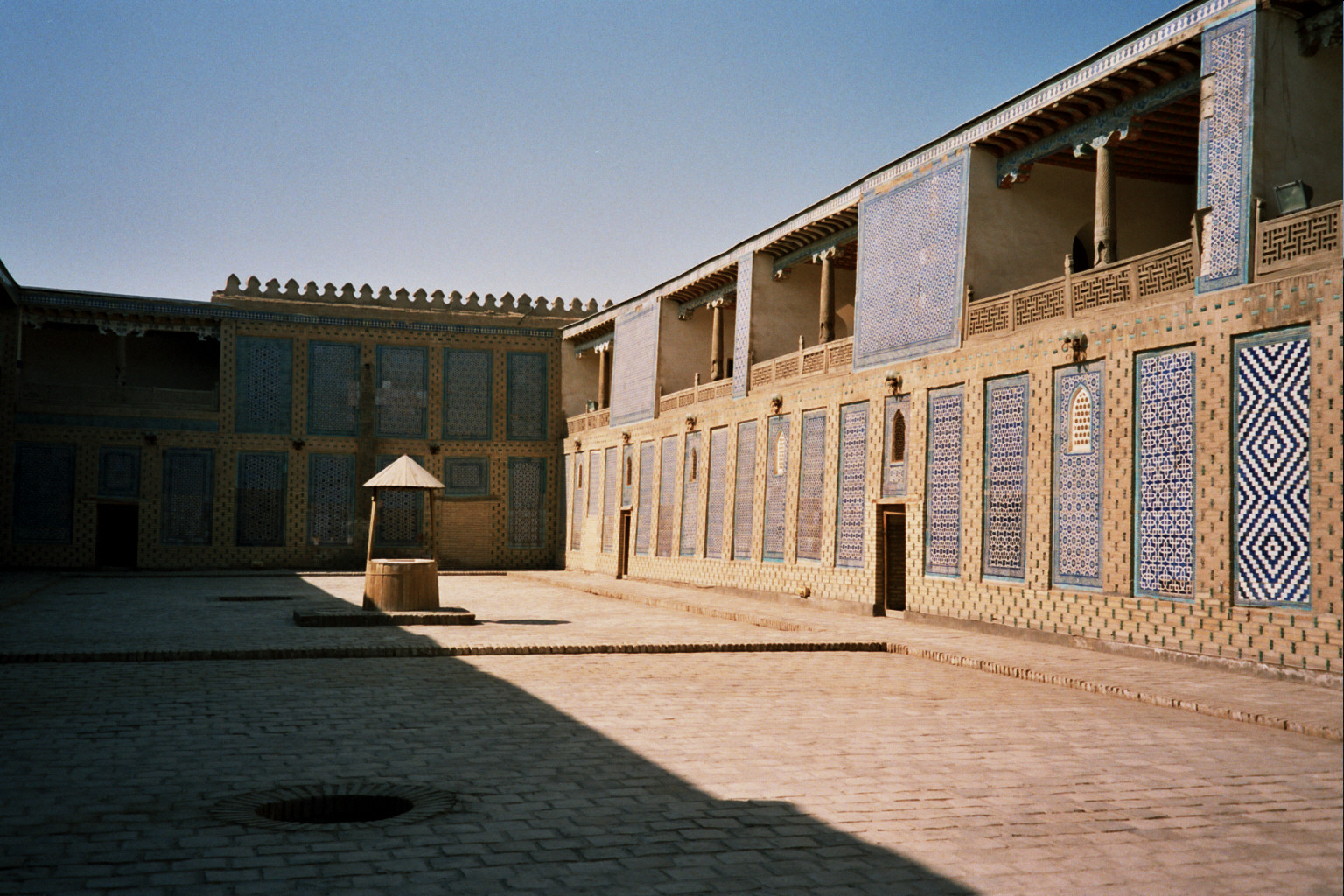 harem courtyard